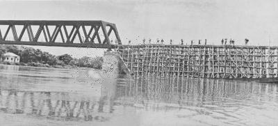 Shilong Railway Bridge of Chinese Section of the Canton-Kowloon Railway in 1938. Japanese soldiers were repairing the bridge.